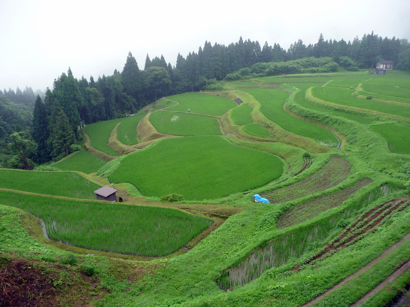 Rice Terraces of Ueyama in Ojiro in Summer